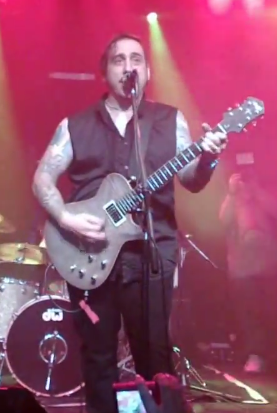 Olivares